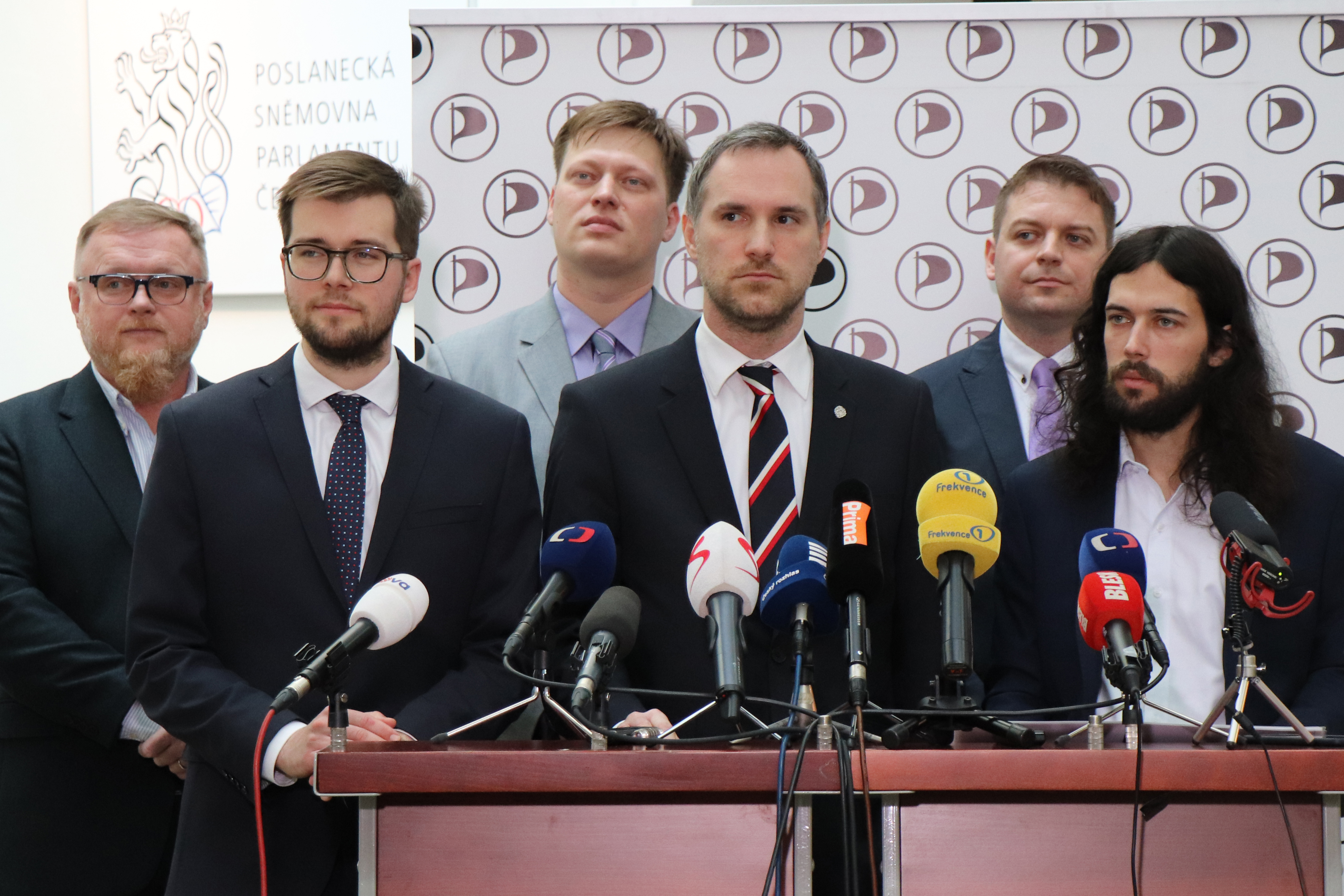 Czech Pirate Party press conference 12 February 2019